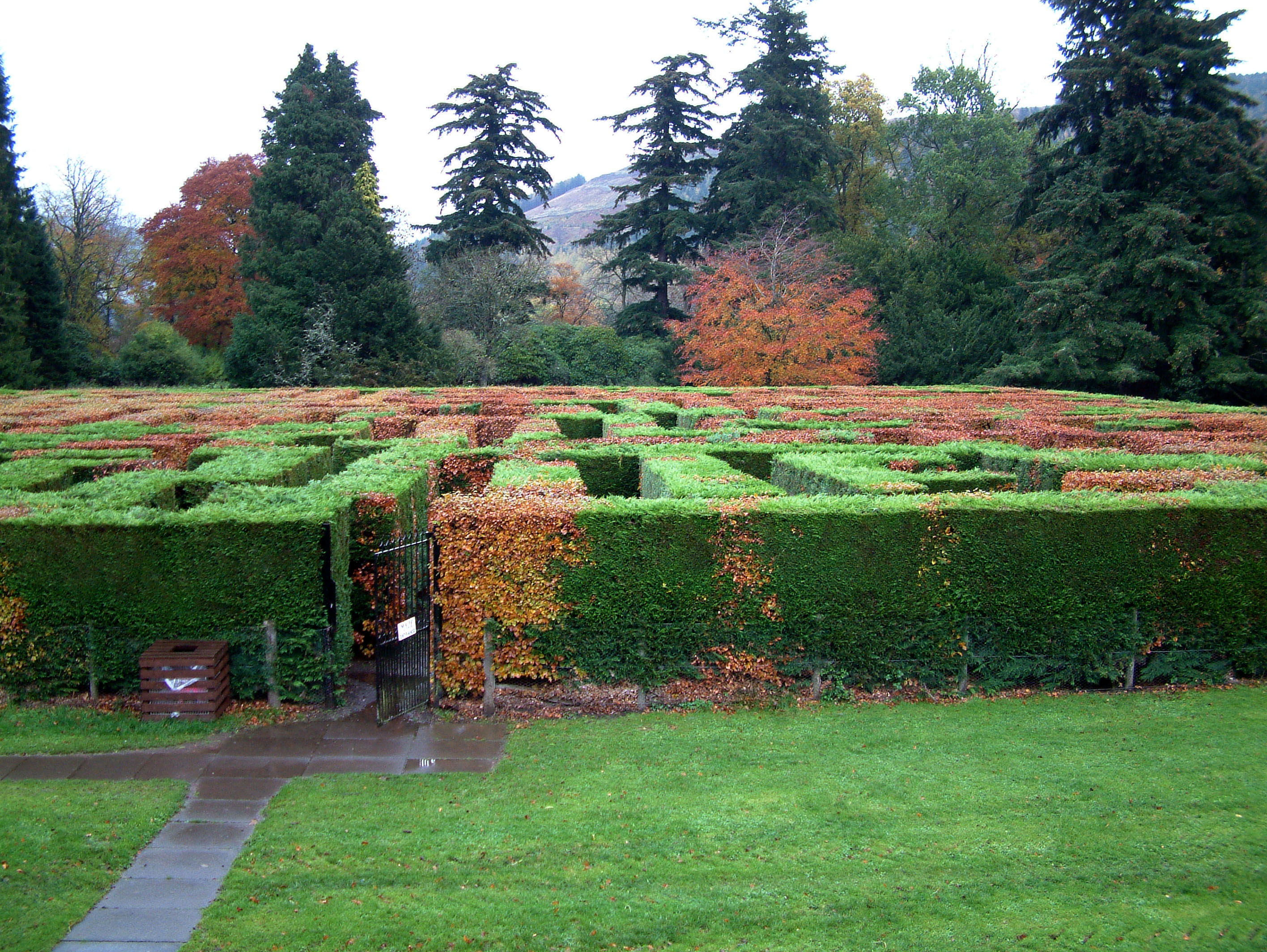 Garden maze behind Traquair House, Scotland